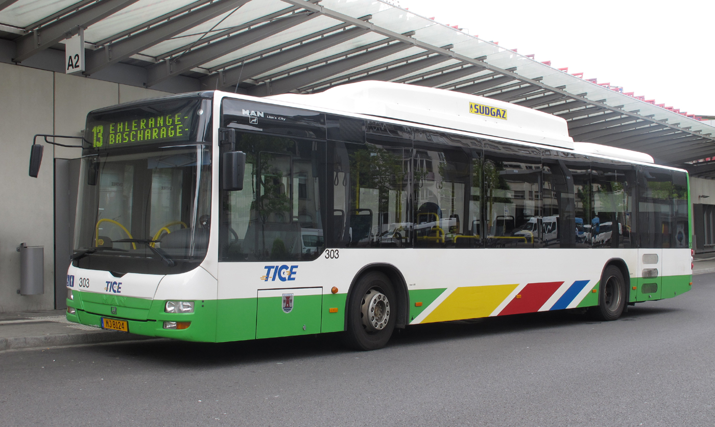 TICE-Bus (MAN) at the bus station in Esch-Alzette, Luxembourg